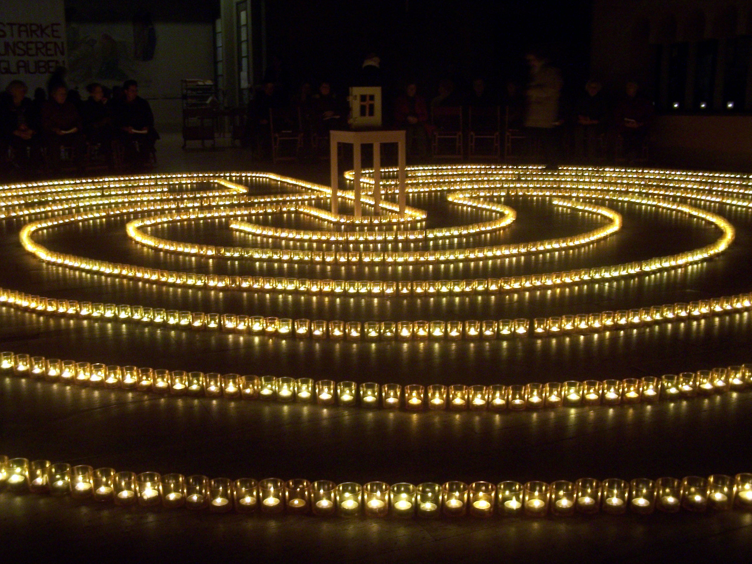 Labyrinth made with 2500 burning tealights in the Holy Cross Church of the Centre for Christian Meditation and Spirituality of the Diocese of Limburg in Frankfurt am Main-Bornheim